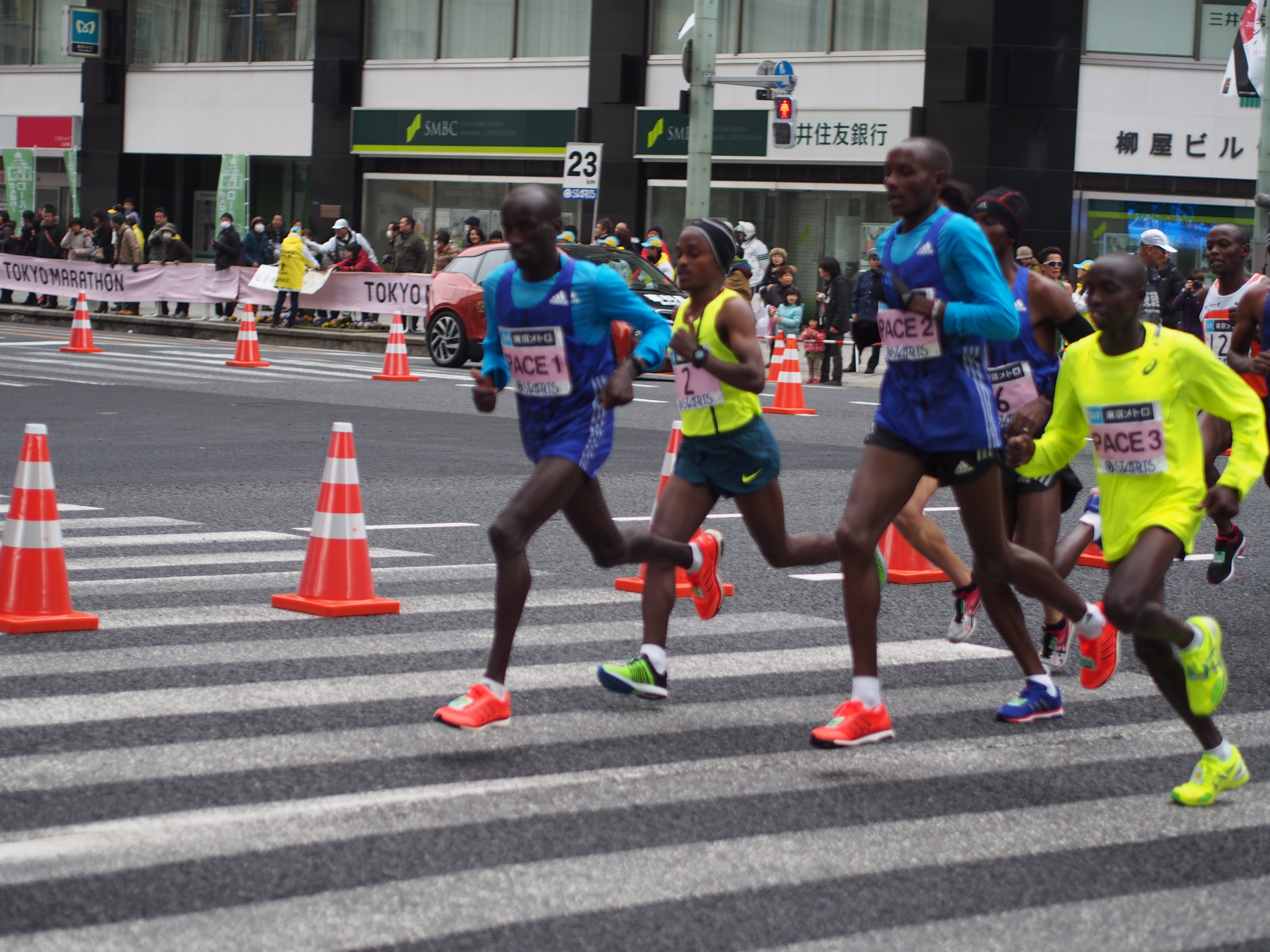 Tokyo Marathon 2015 - leading men2 2/22/2015